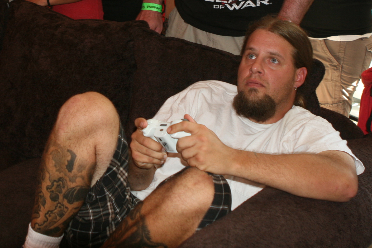 Chris Fehn of Slipknot playing XBOX 360 unmasked.